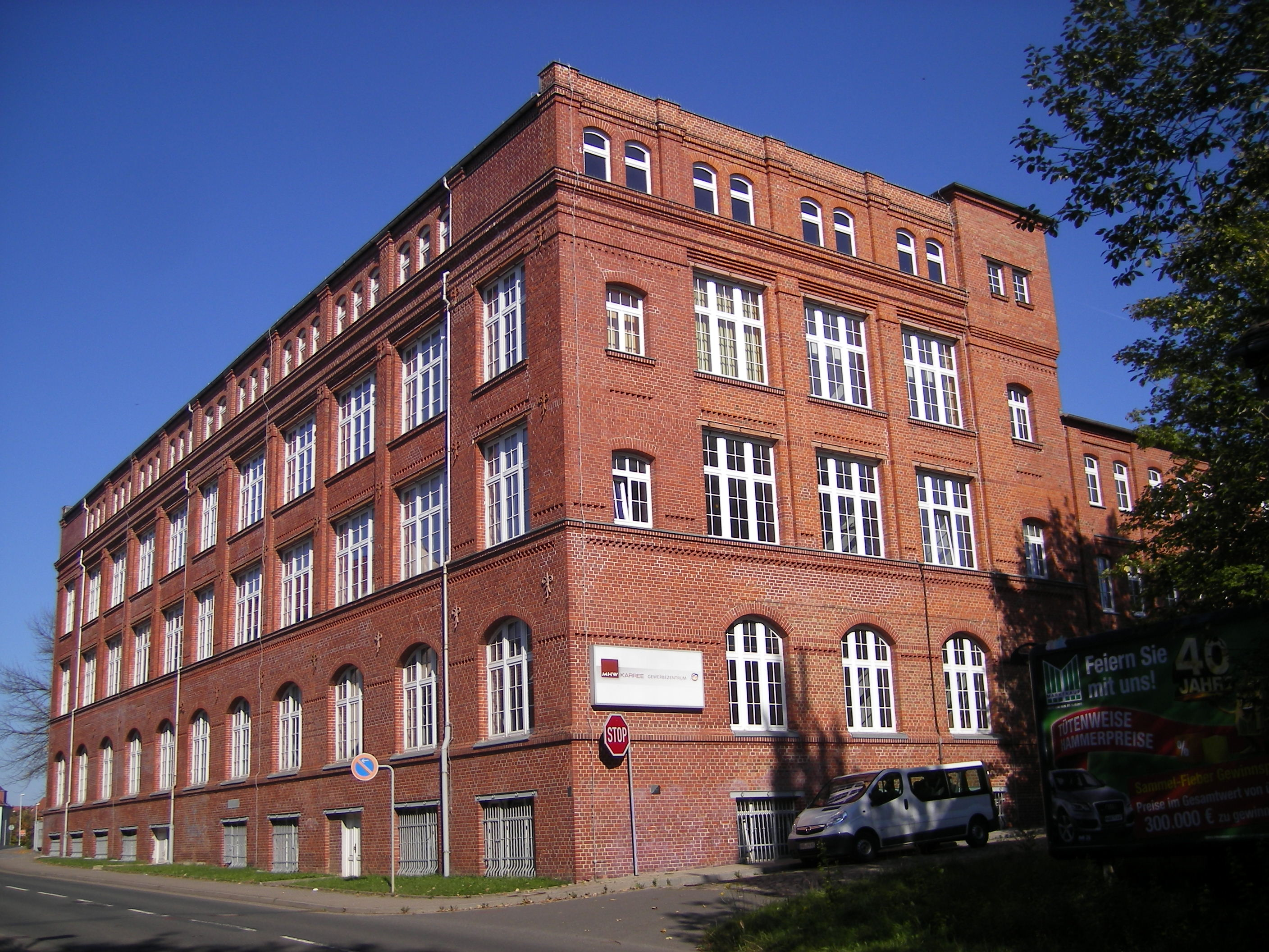 Origin sewing machine factory Winselmann in residence city and city of Skat Altenburg/Thuringia